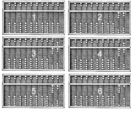 This file describes how one uses a Chinese abacus to add two numbers, 32 and 9 in this example. It was created by me, using Image:Abacus_6.png as the base.